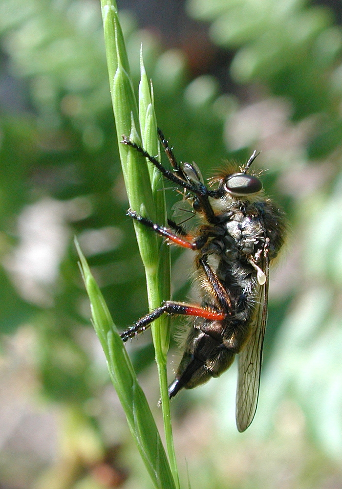 Leptarthrus brevirostris, female, Garmisch, Bavaria, Germany